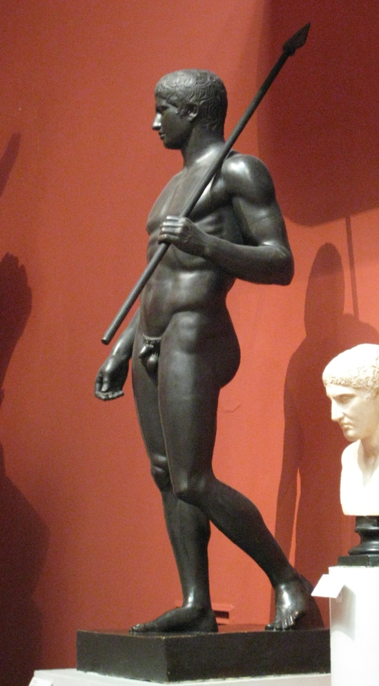 Polykleitos, The Doryphoros. Cast in Pushkin Museum, Moscow. The original in marble was found in the Palestra Sannitica in Pompeii, and is now in the Museo Archeologico in Naples.